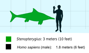 A comparison of the body sizes between an Stenopterygius and an adult male human.